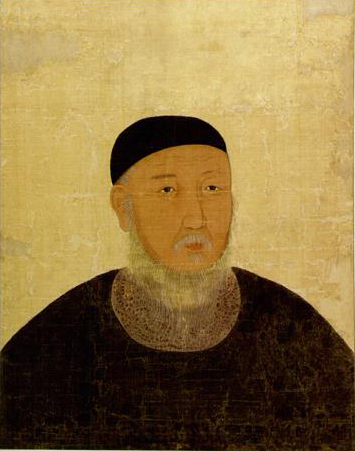 Portrait of Yeom Jesin, an government officer in the late Goryeo dynasty